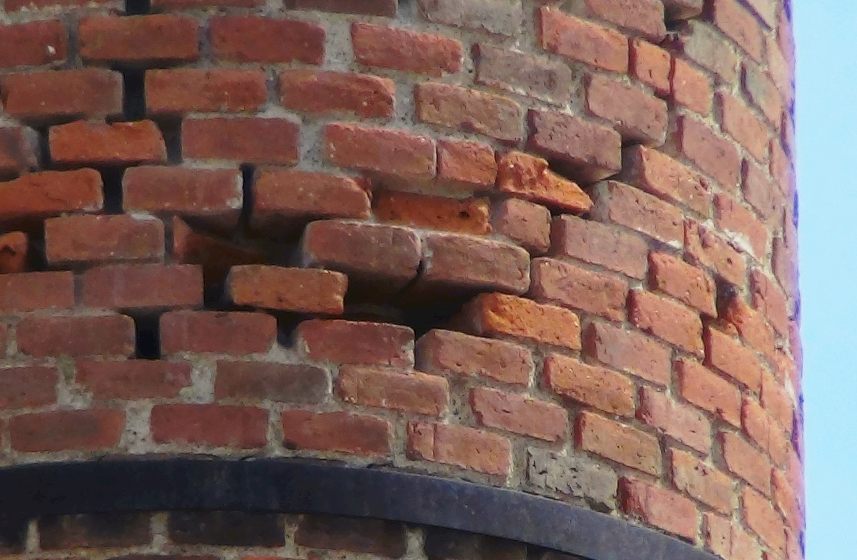 Pathologies of industrial chimneys